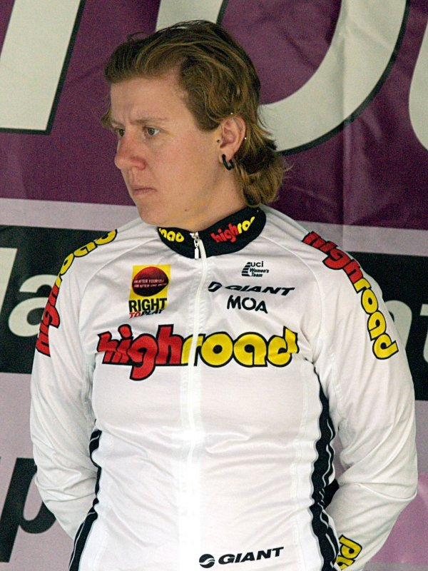 German cyclist Ina-Yoko Teutenberg (Team High Road) on the podium having finished 3rd in the Stage 1 time trial of the 2008 Geelong Tour, Portarlington, Australia.